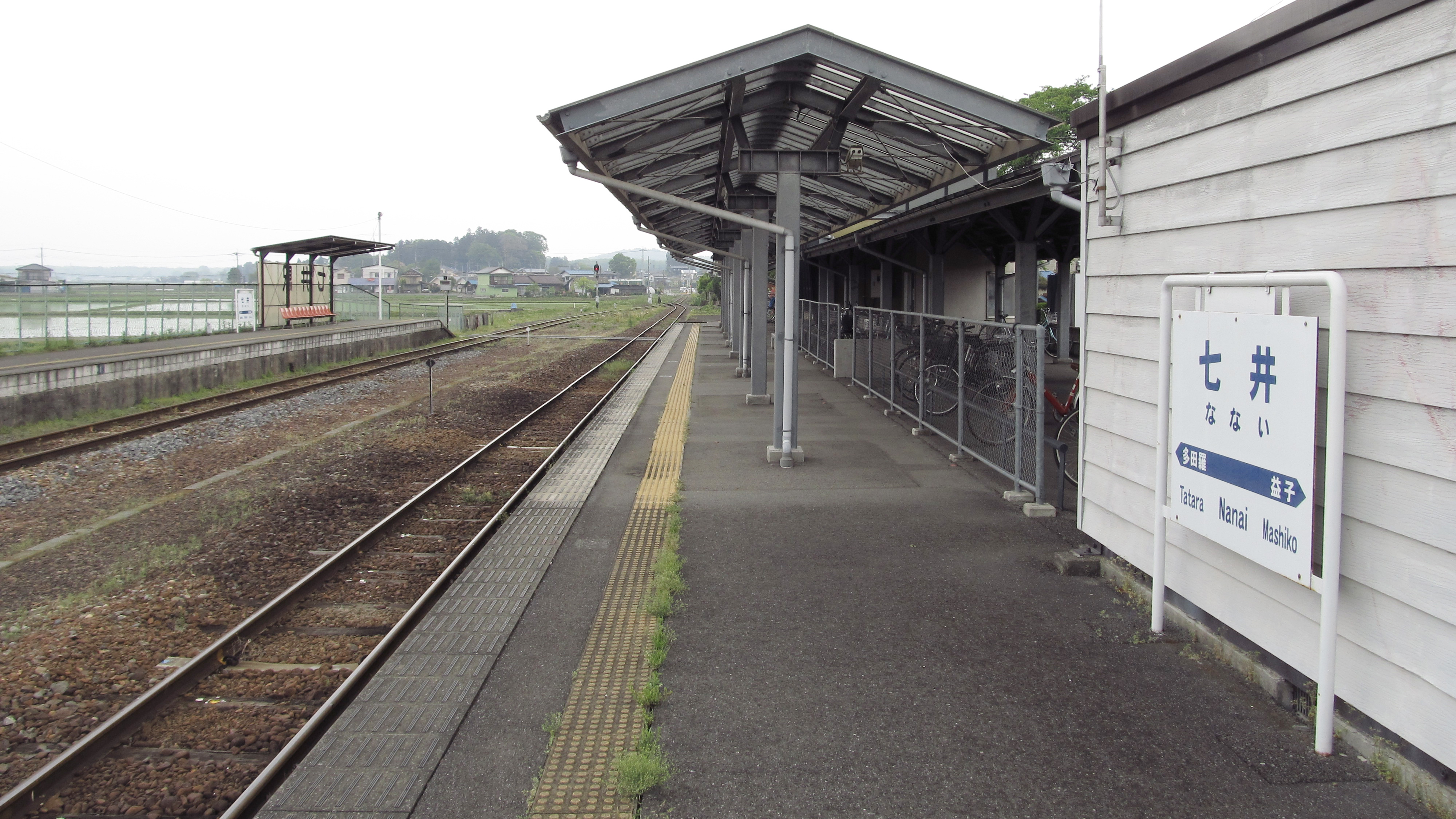 The platforms at Nanai Station on the Mooka Railway Mooka Line in the Mashiko town, Tochigi prefecture, Japan